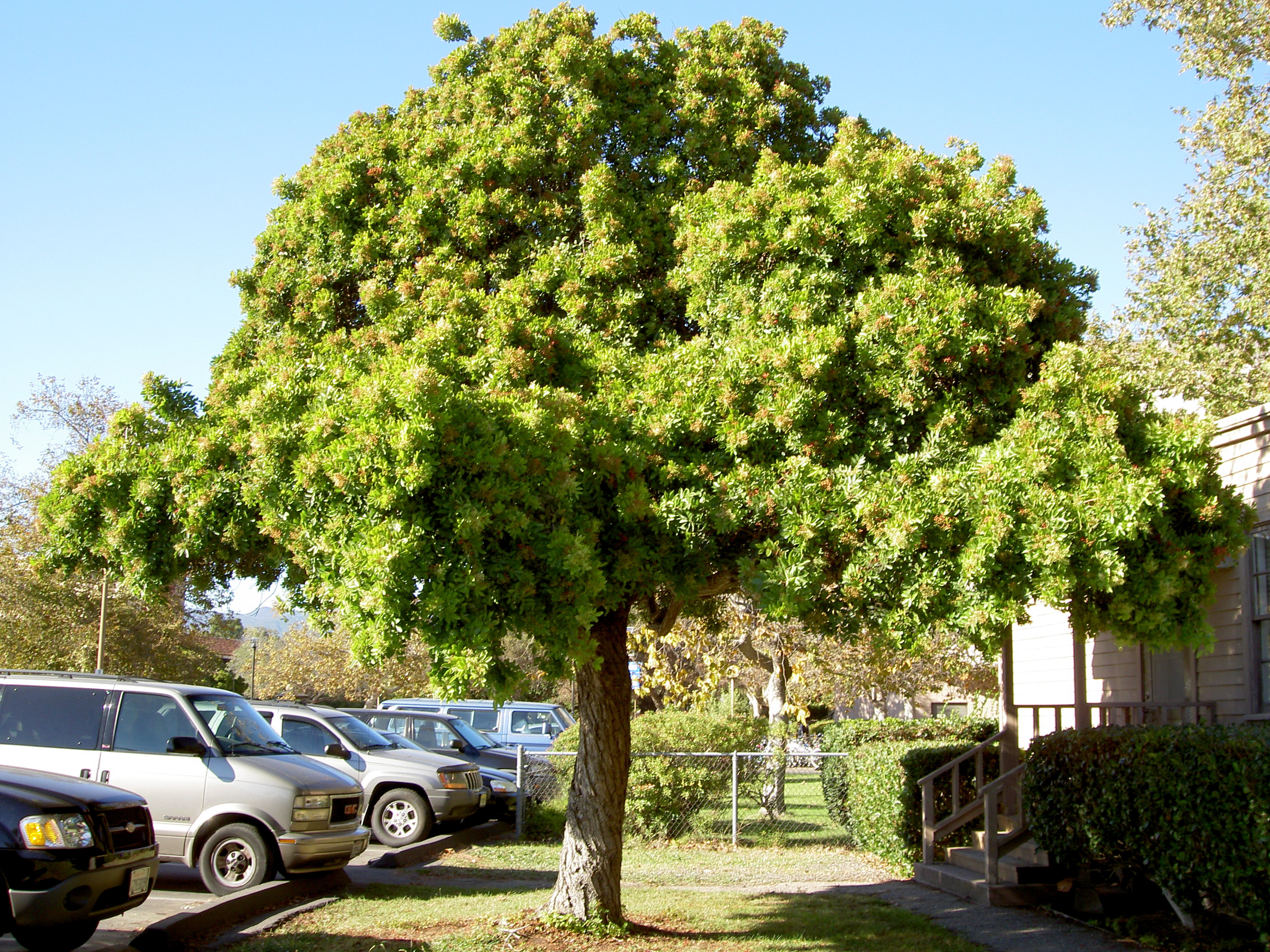 A Brazilian pepper tree on the UCSB campus.